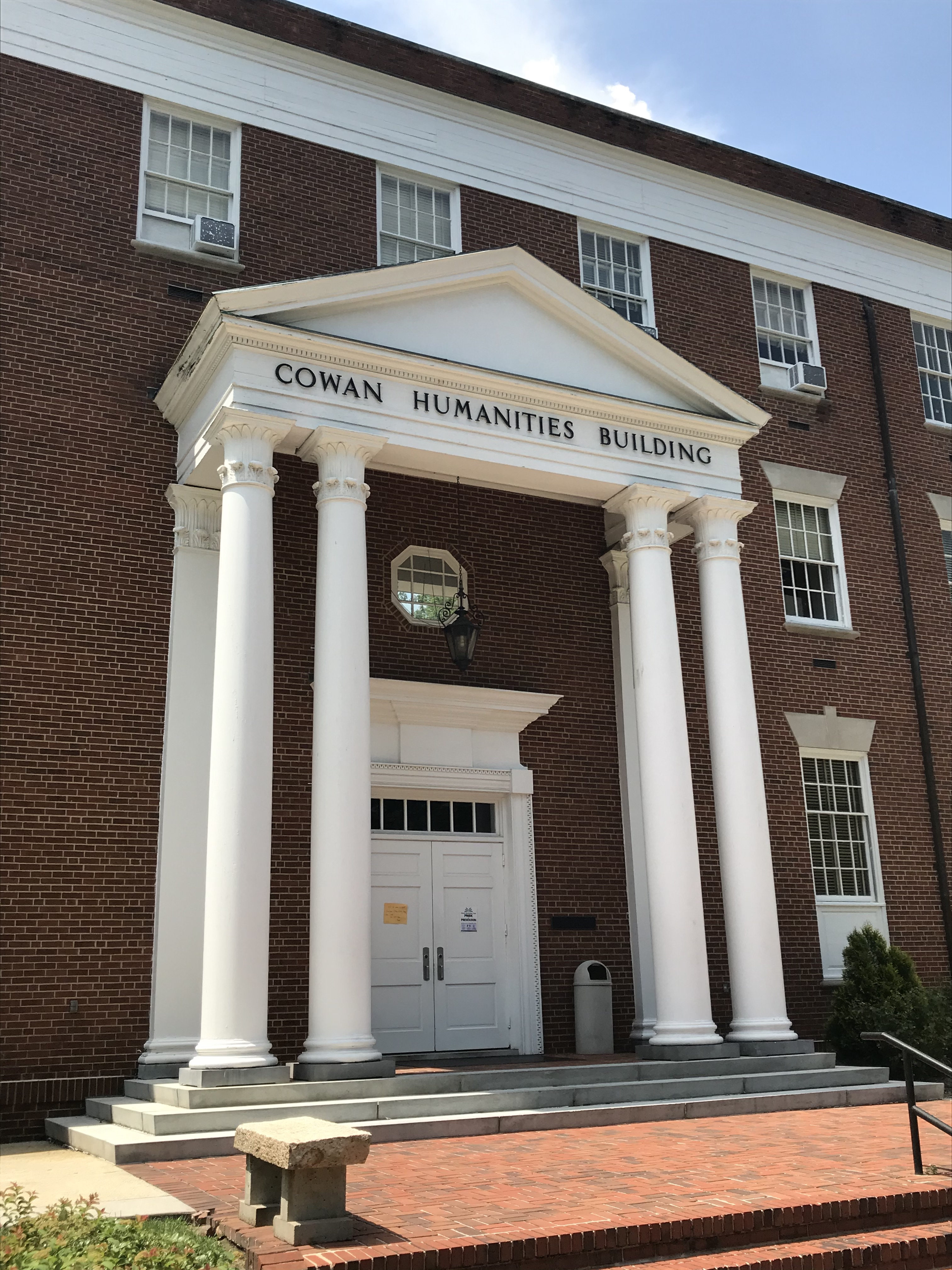 Greensboro College - Cowan Humanities Building